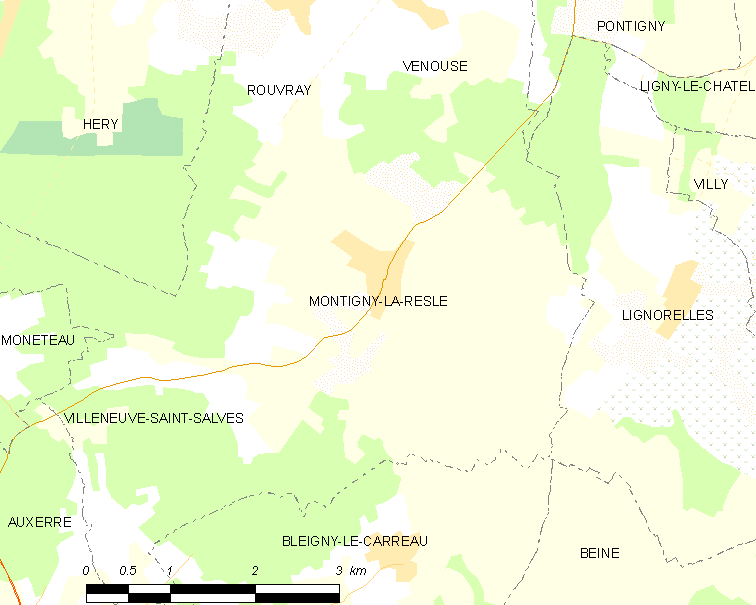 Map of French municipality Montigny-la-Resle